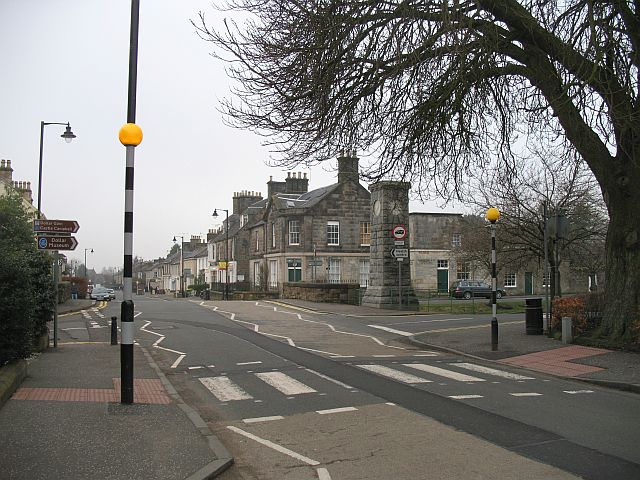 Zebra crossing, Dollar Looking westward over the Dollar Burn.